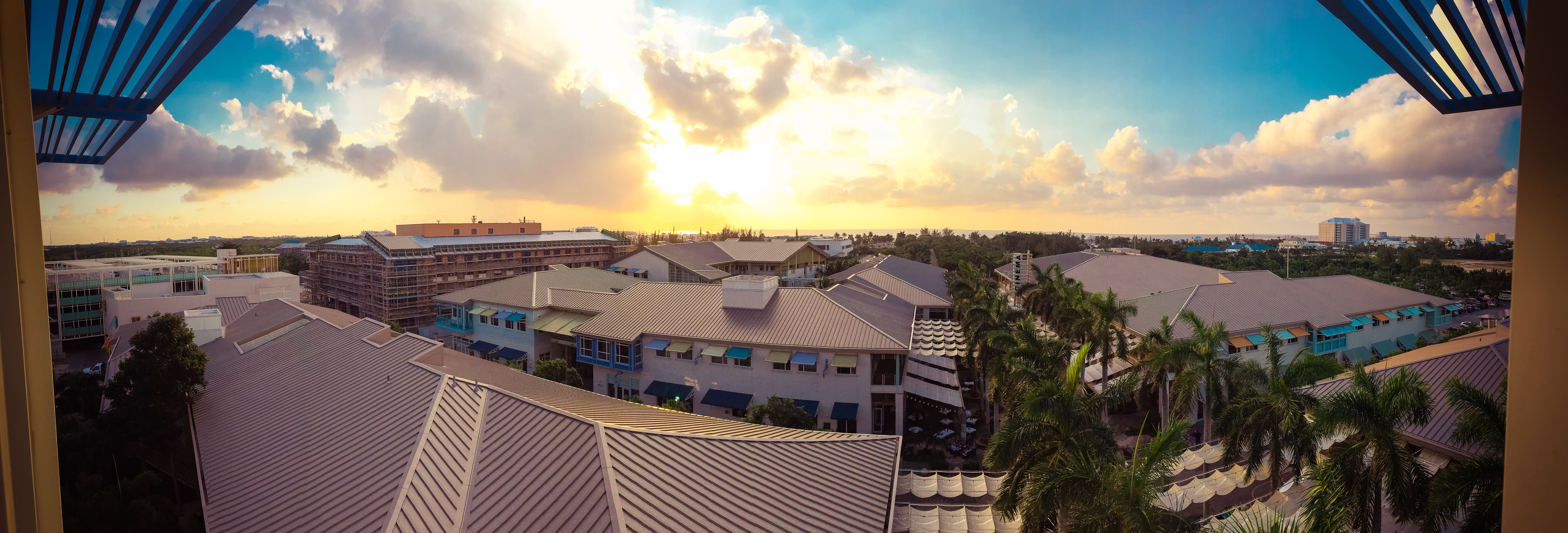 Looking Towards Seven Mile Beach